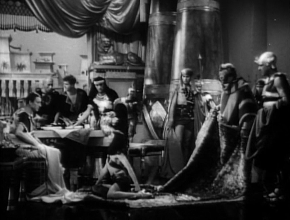 Screenshot of Julius Caesar and Cleopatra from the trailer for the film Cleopatra.